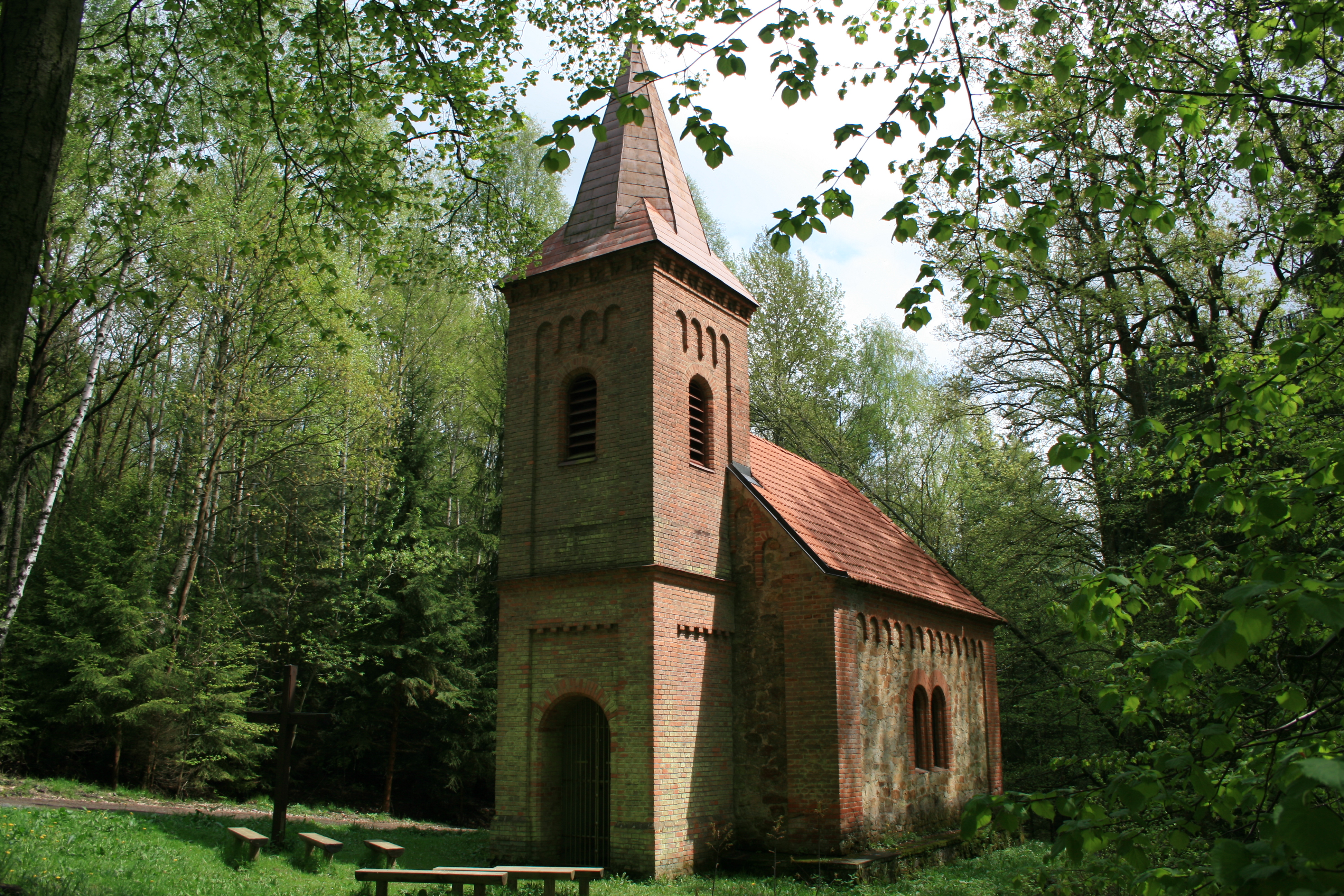 Chapel of Our Lady of Sorrows, Soběslav, Czech Republic, in 2010